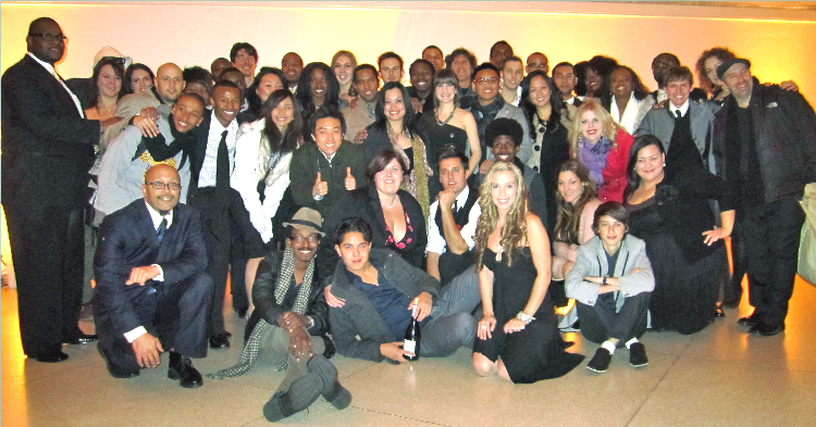 Group photograph of singers and musicians after a reunion performance in Washington, D.C. in December 2010, who earlier sang in the February 2010 online-collaborative charity video We Are the World 25 for Haiti (YouTube Edition).